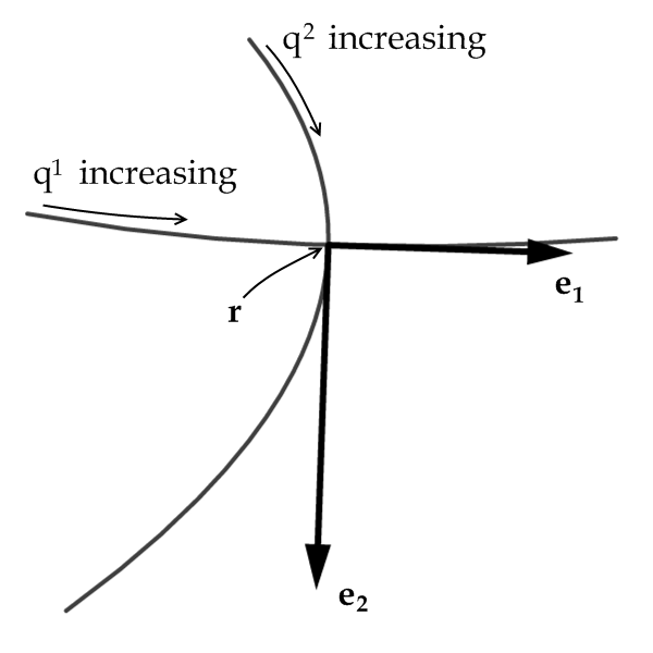 Outline of the essence of orthogonal coordinates.